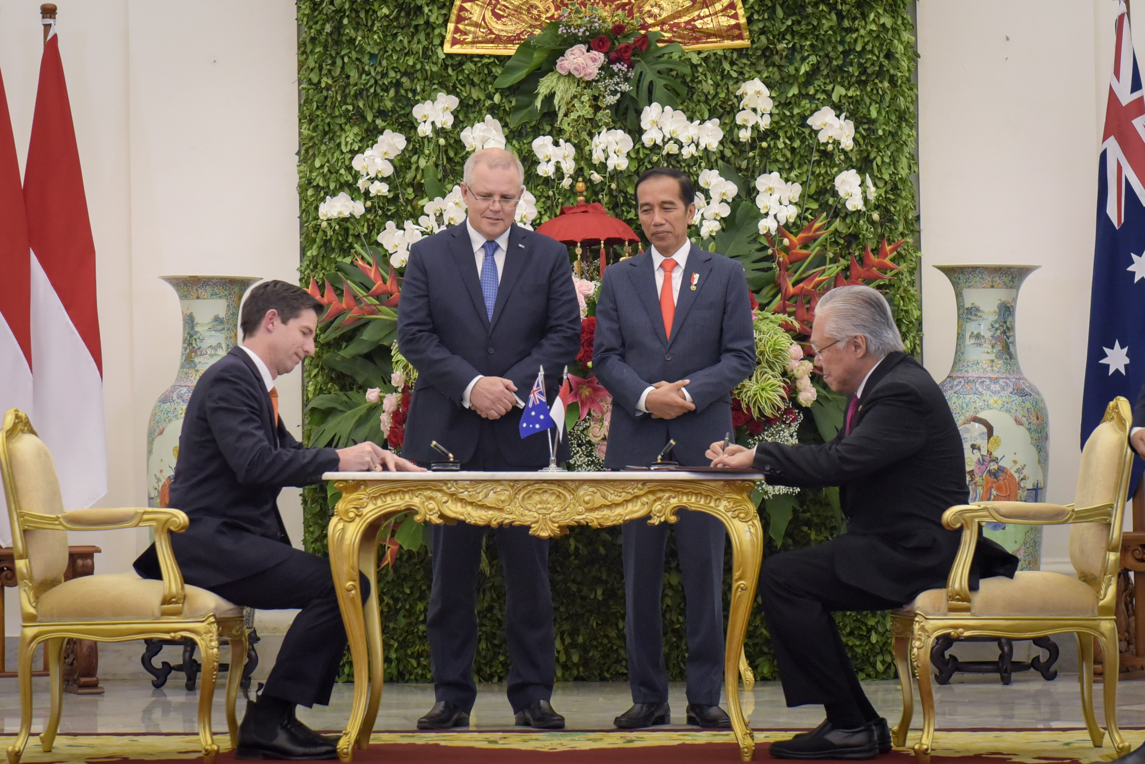 Photo credit: DFAT / Timothy Tobing